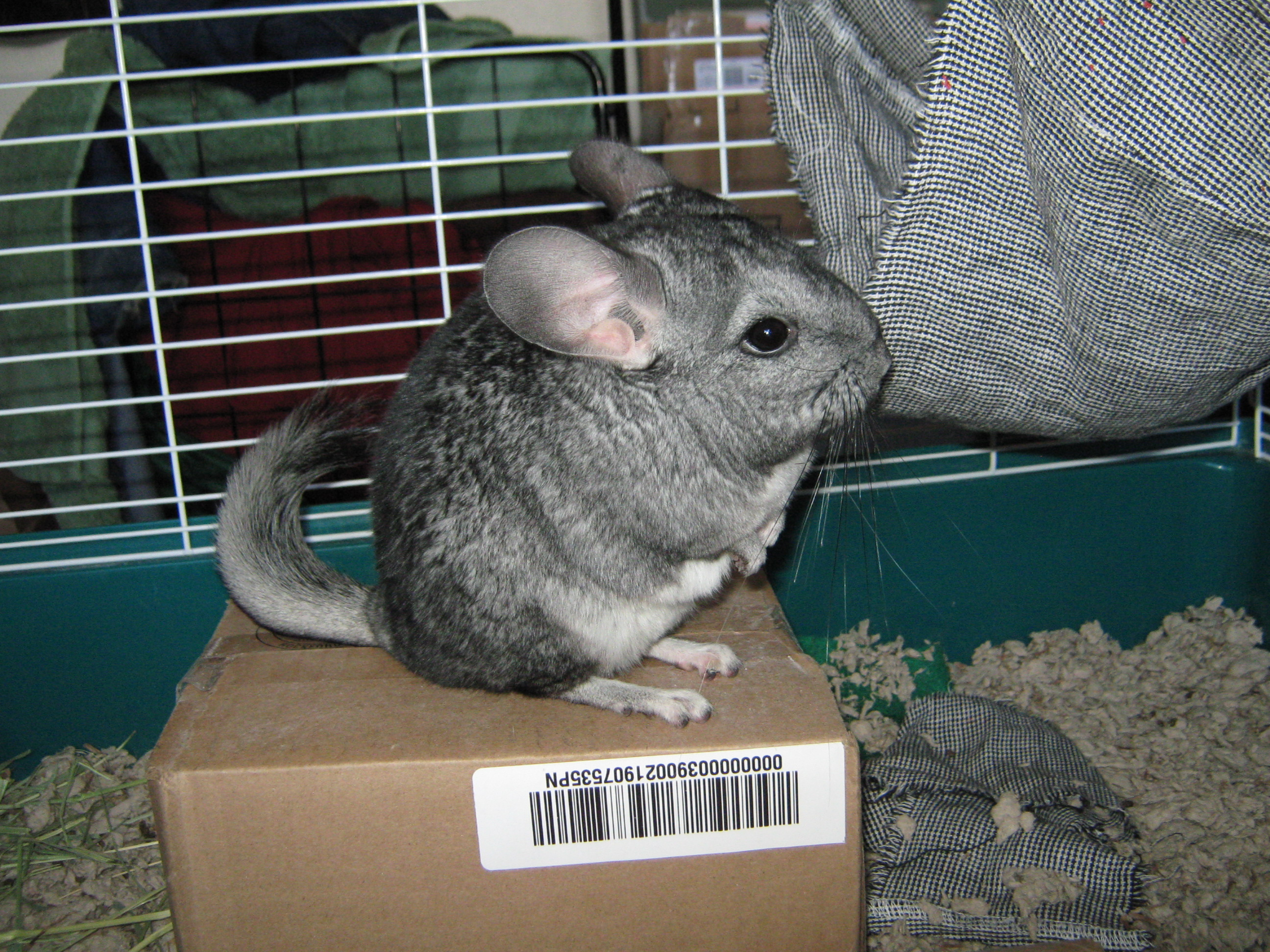 This is a photograph of a female long-tailed chinchilla "costina" standing on her hind legs. This is common behavior for a chinchilla, often performed while begging.